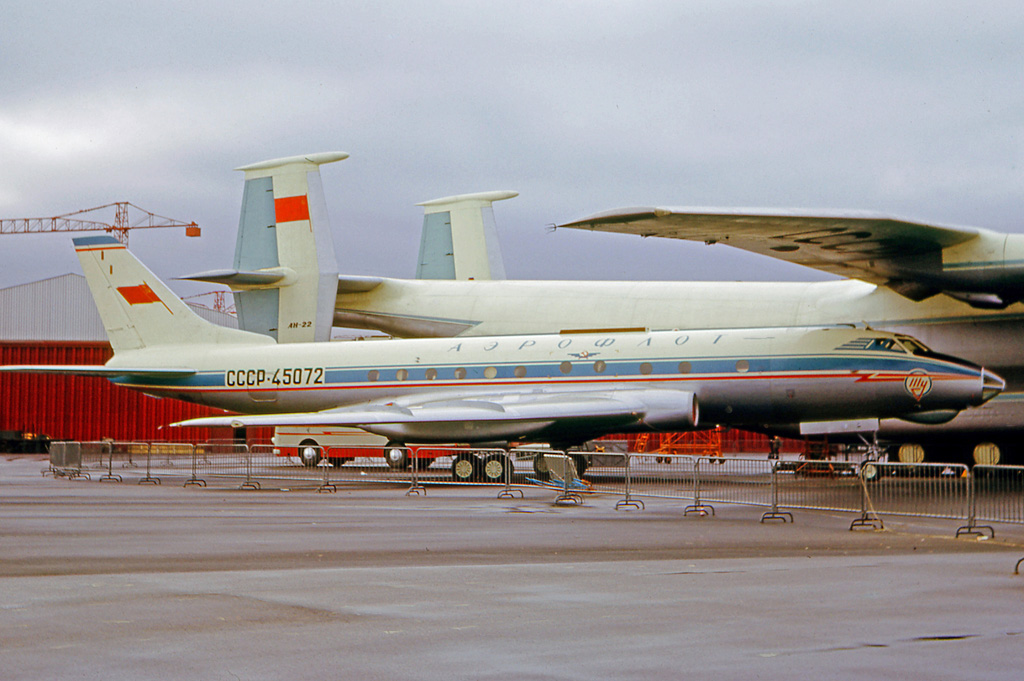 Tupolev Tu-124V CCCP-45072 of Aeroflot (foreground) and Antonov An-22 (background) at the 1965 Paris Air Show